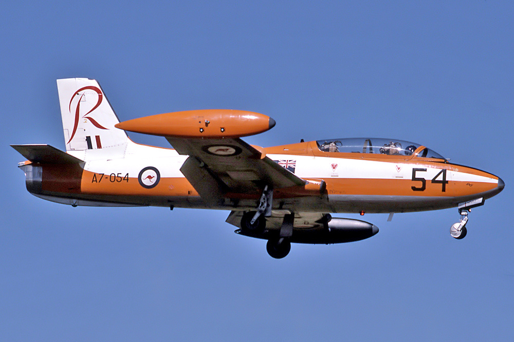 RAAF Commonwealth CA-30 (MB-326H) landing at RAAF Air Base Edinburgh